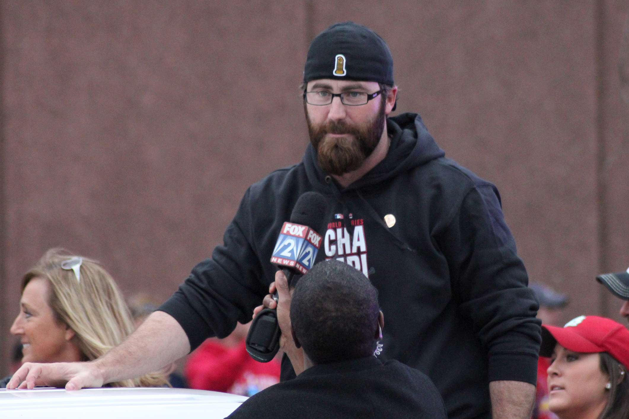 Jason Motte during the 2011 World Series victory parade Saint Louis Oct 30, 2011.